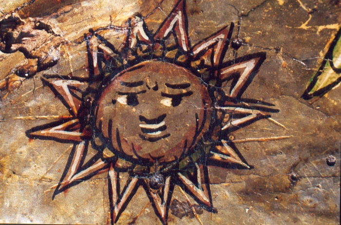 Osikovitsa Church Detail